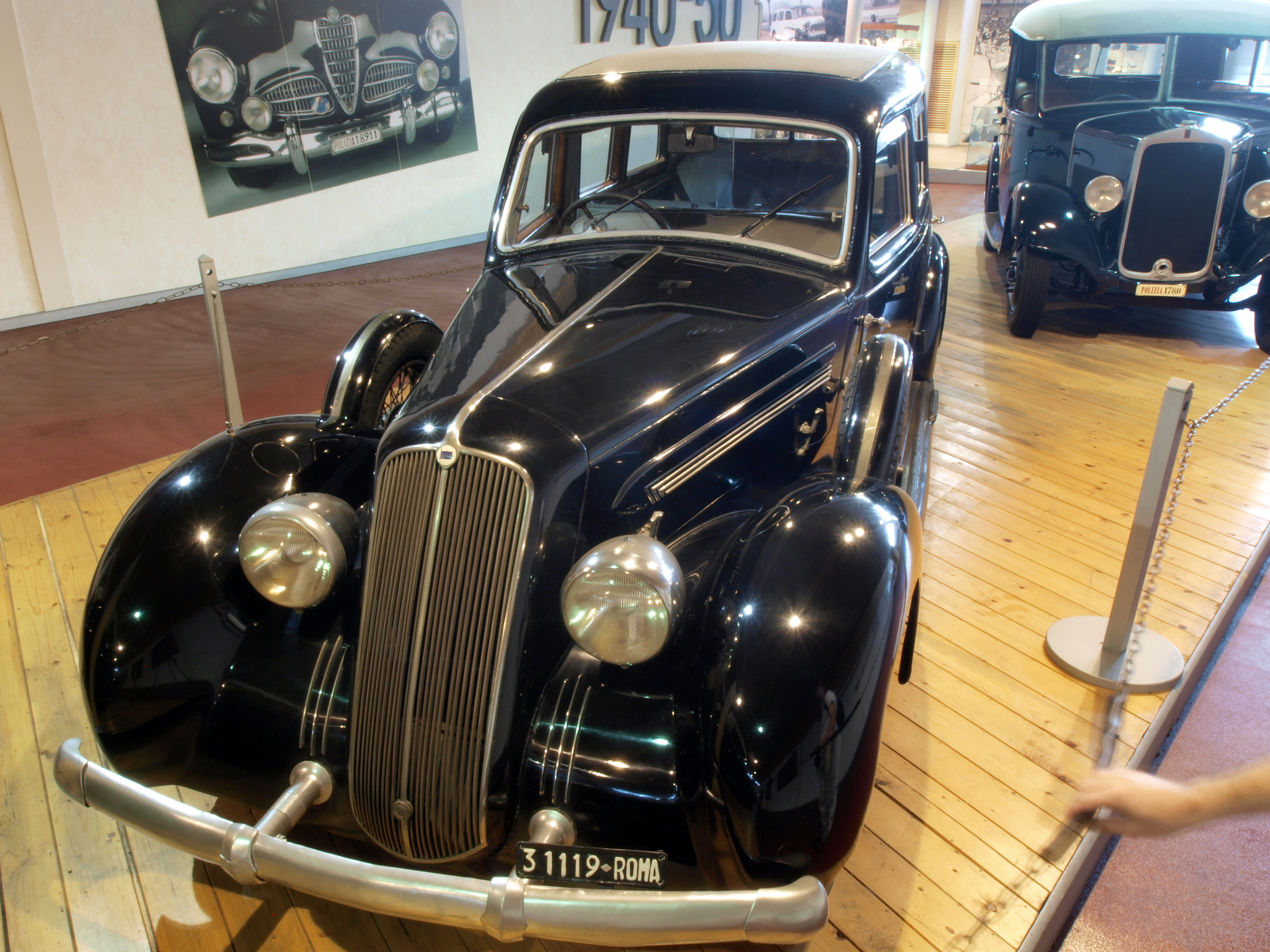 Photographed at Rome, Italy.